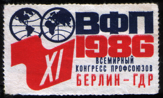 USSR revenue stamp. XI world congress of trade unions, 1986.